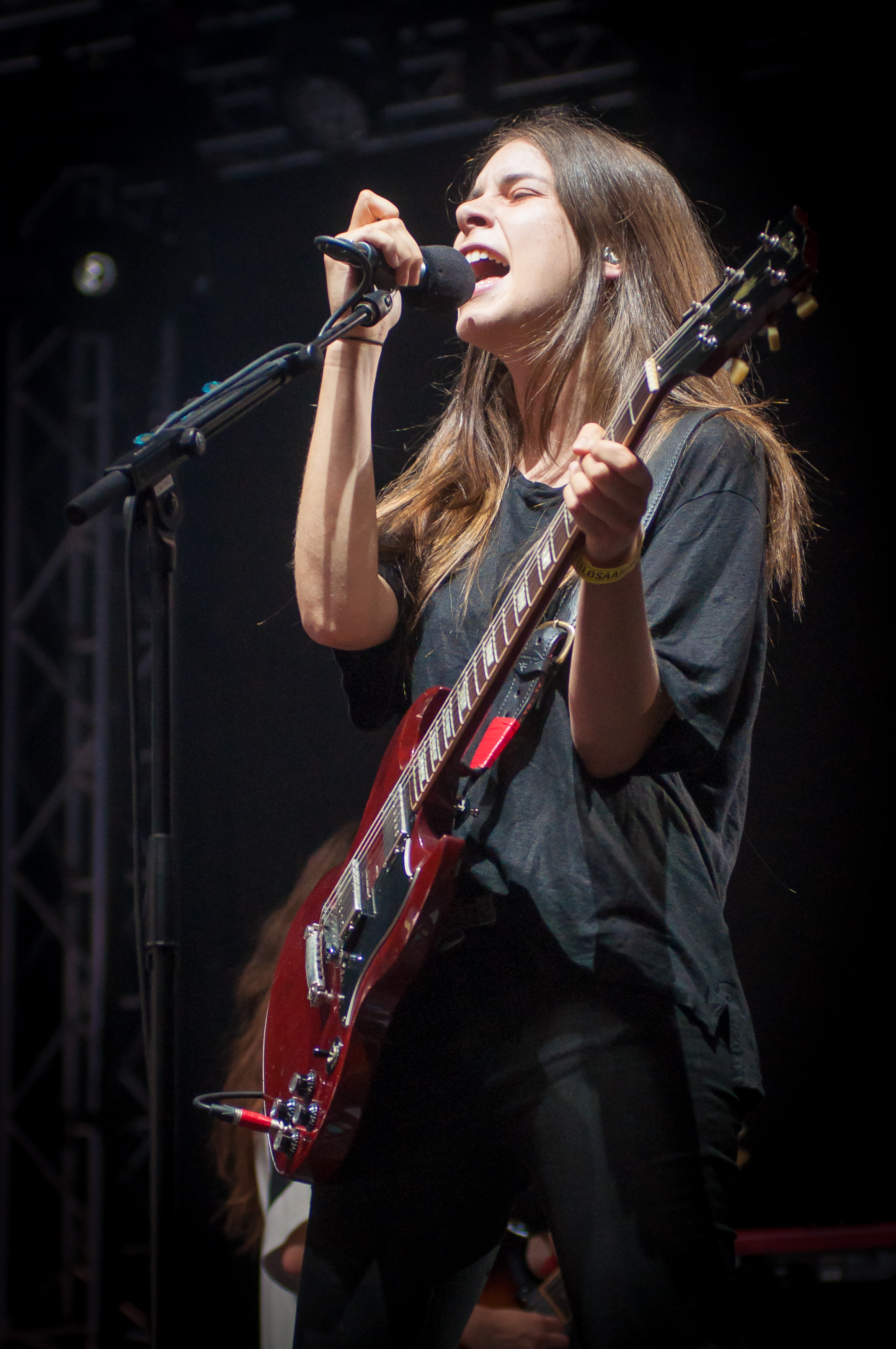 Danielle Haim of American rock band Haim performing at the 2014 Ilosaarirock festival in Joensuu, Finland.